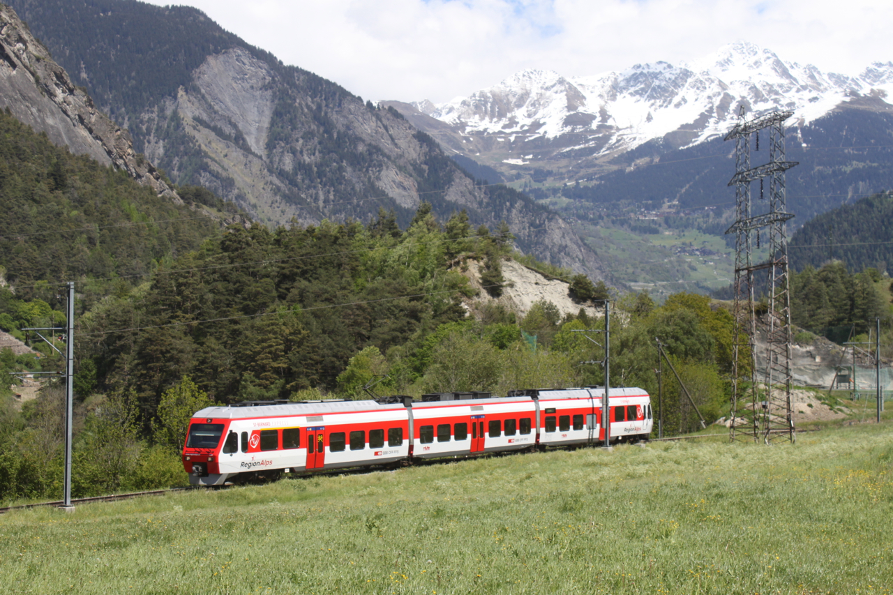 RegionAlps RABe 525 039-4 running as R 26123 from Le Châble to Martigny at Sembrancher.